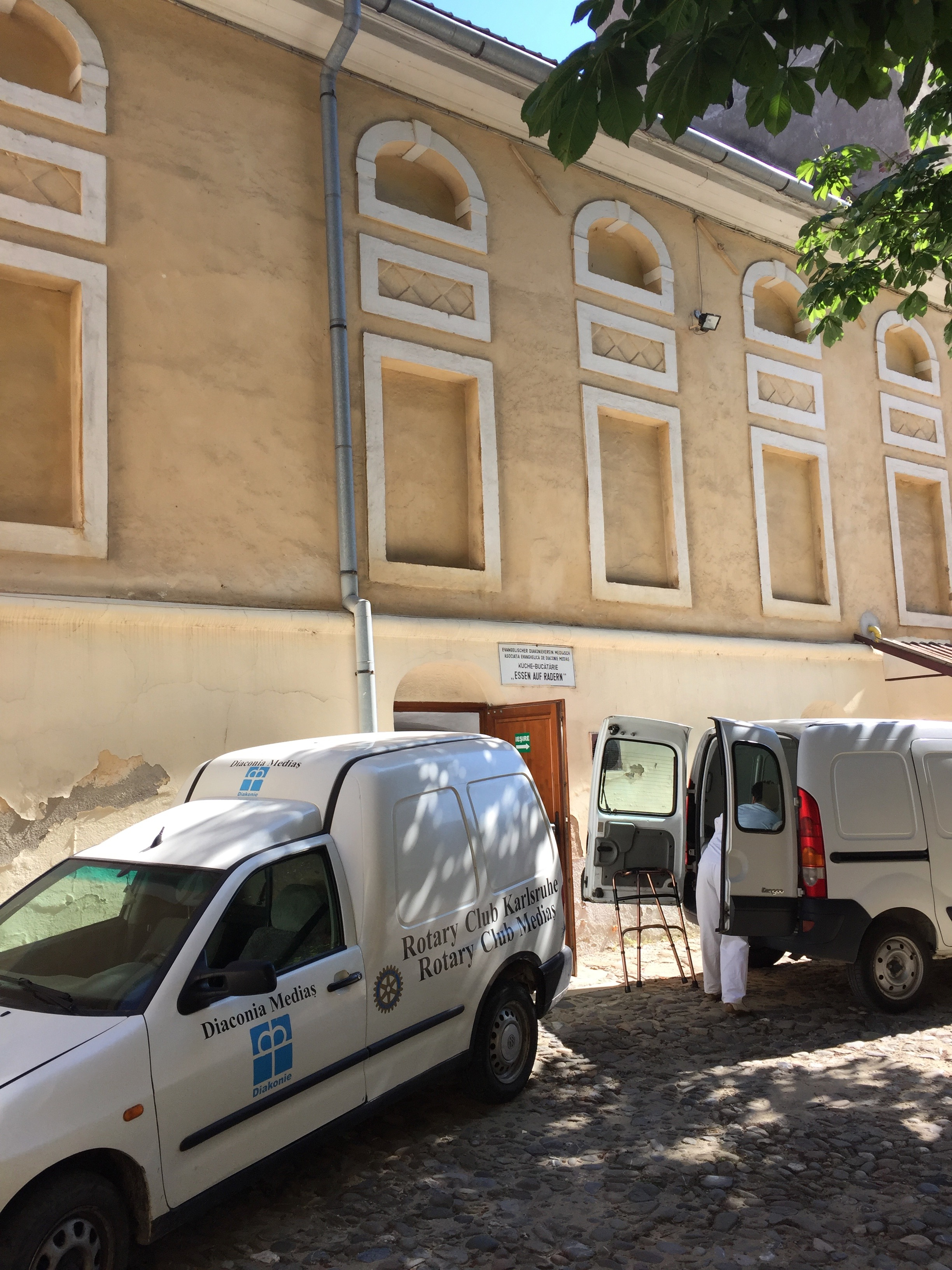 Evangelischer Diakonieverein Mediaș, kitchen at St. Margaret's church and delivery vans for “Meals on wheels“, June 2017